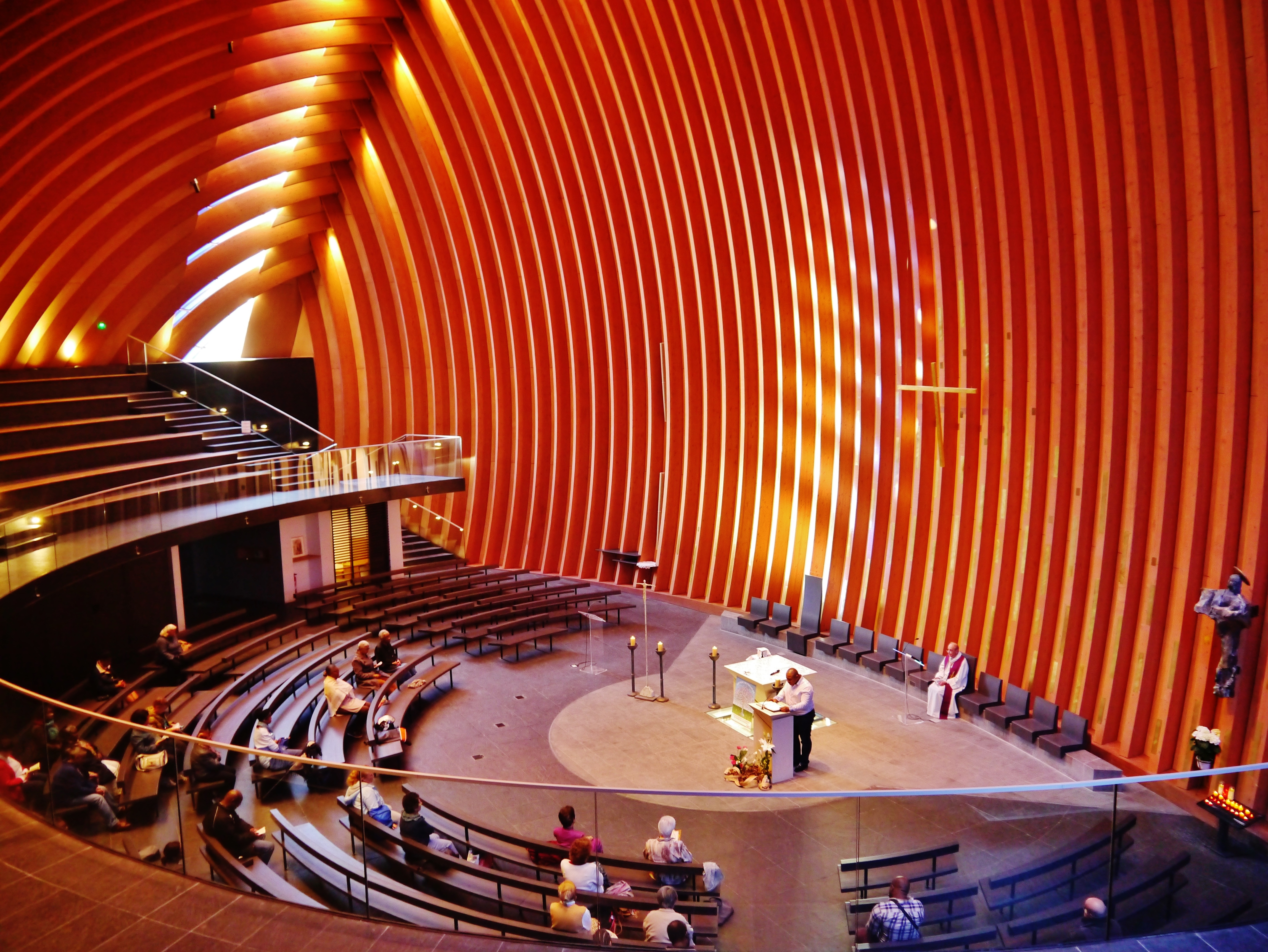 Central Room of the Cathedral of Our Lady, Créteil, Departement of Val-de-Marne, Region of Île-de-France, France